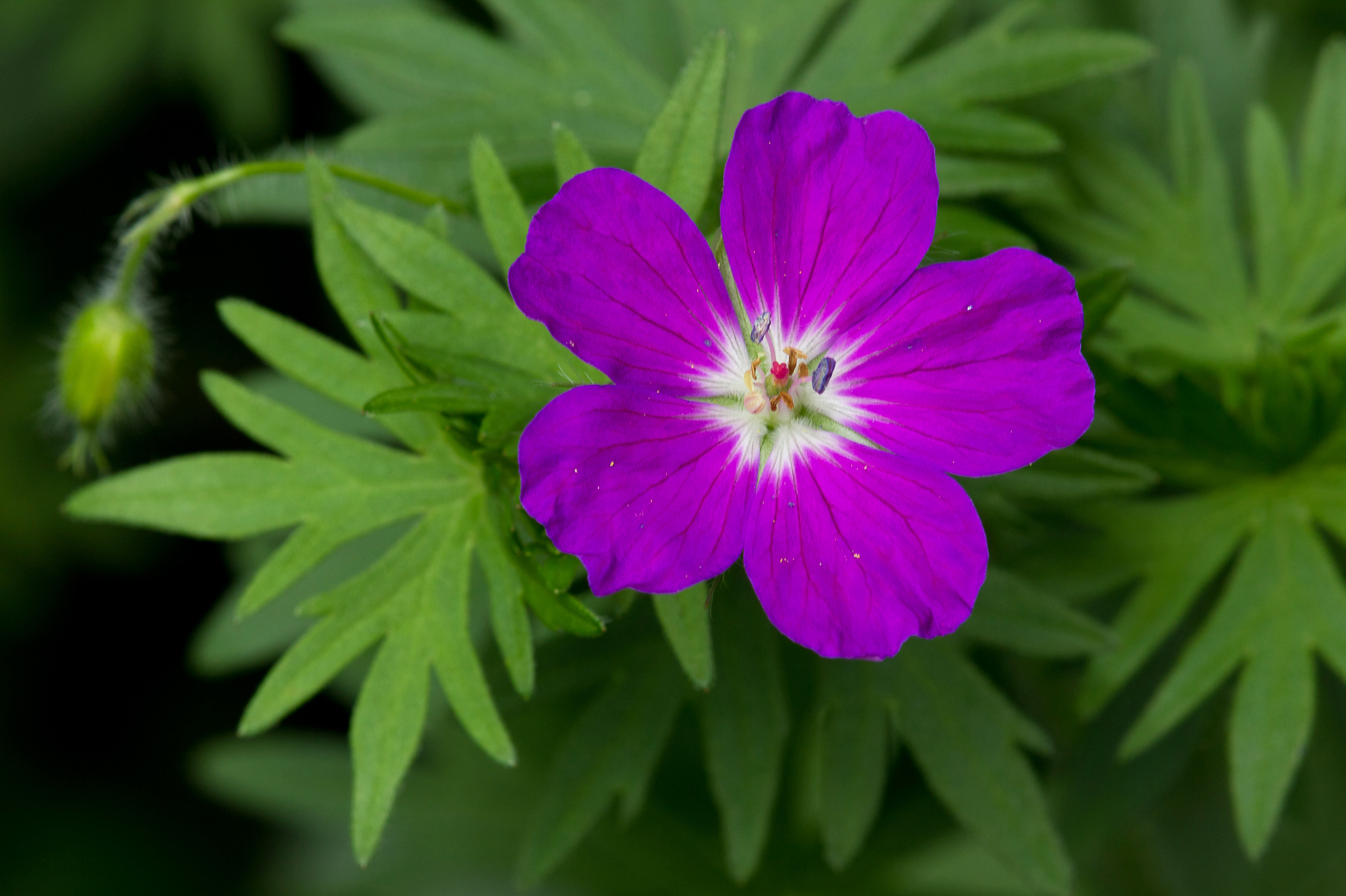 Flowering Bloody Geranium, Geranium sanguineum.